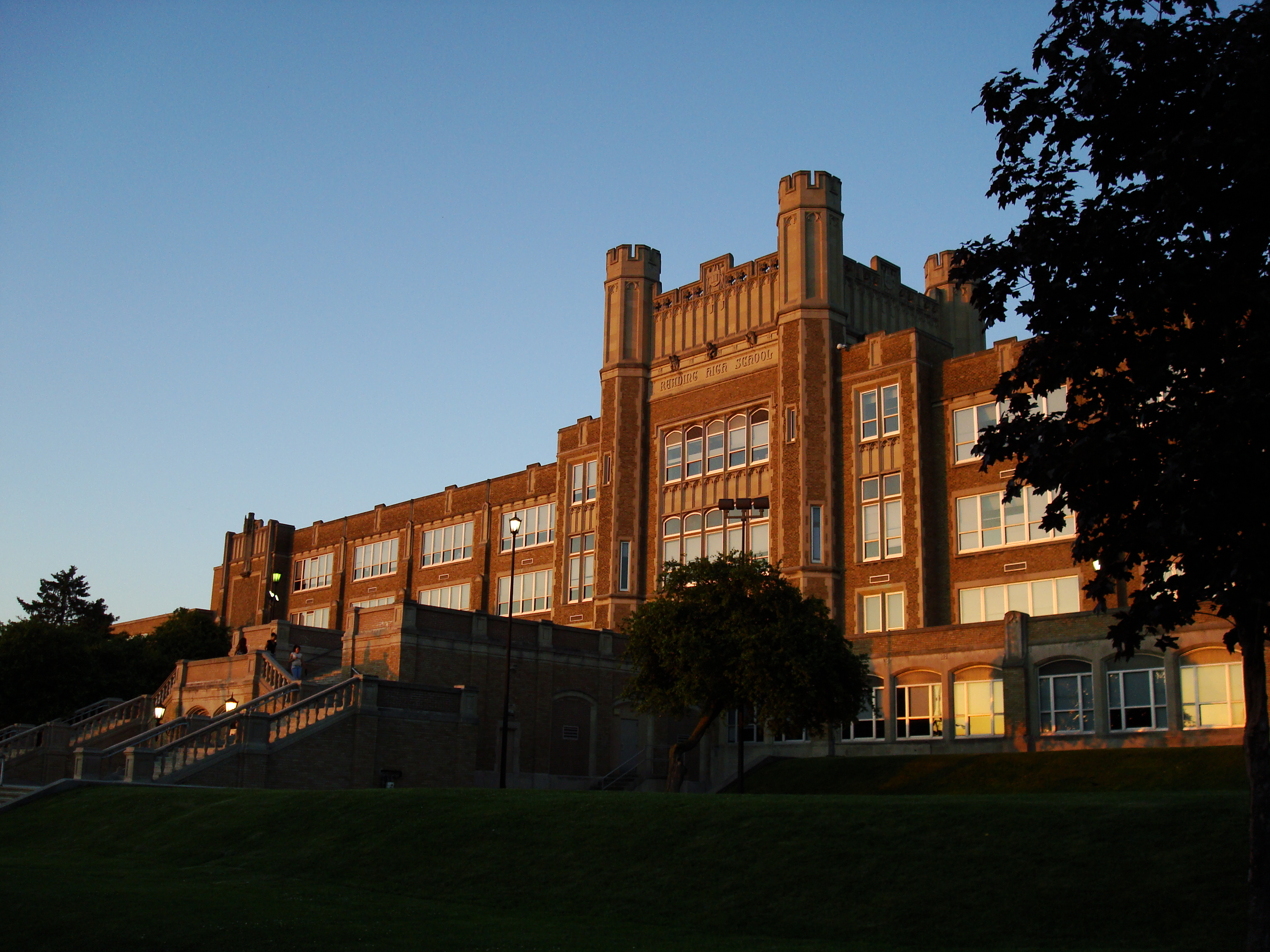 A sunset shot of Reading High School located in Reading, Pennsylvania. It was built in the resemblance of a castle and is nicknamed "The Castle on the Hill".